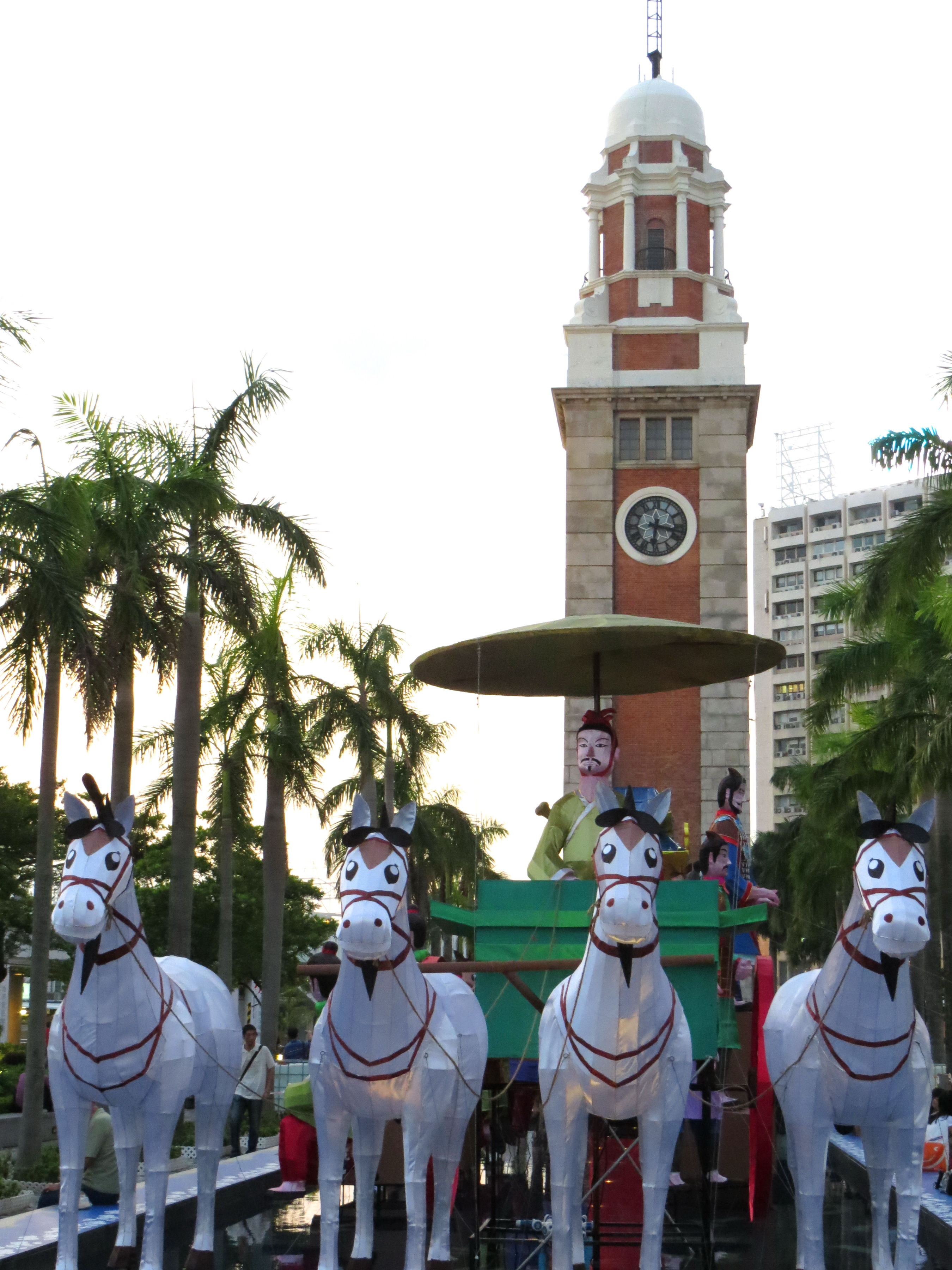 2012 Mid-Autumn Thematic Lantern Exhibition - Terracotta Warriors of the Qin Dynasty (Venue: Hong Kong Cultural Centre Piazza)